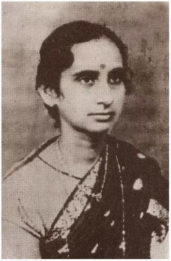 Dalit activist Annai Meenambal Sivaraj